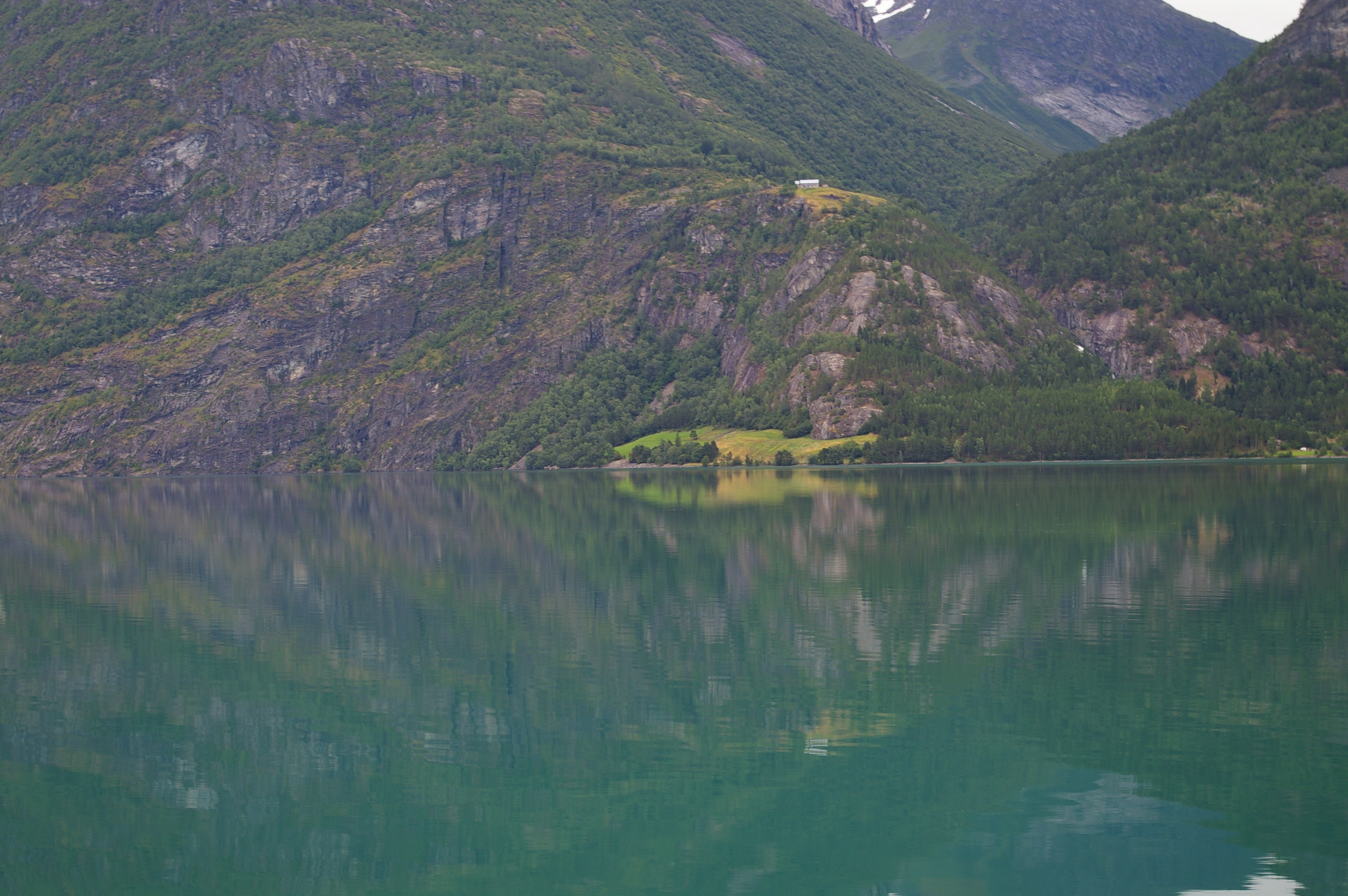 Oppstrynsvatnet, a lake in Stryn, Sogn og Fjordane, Norway.